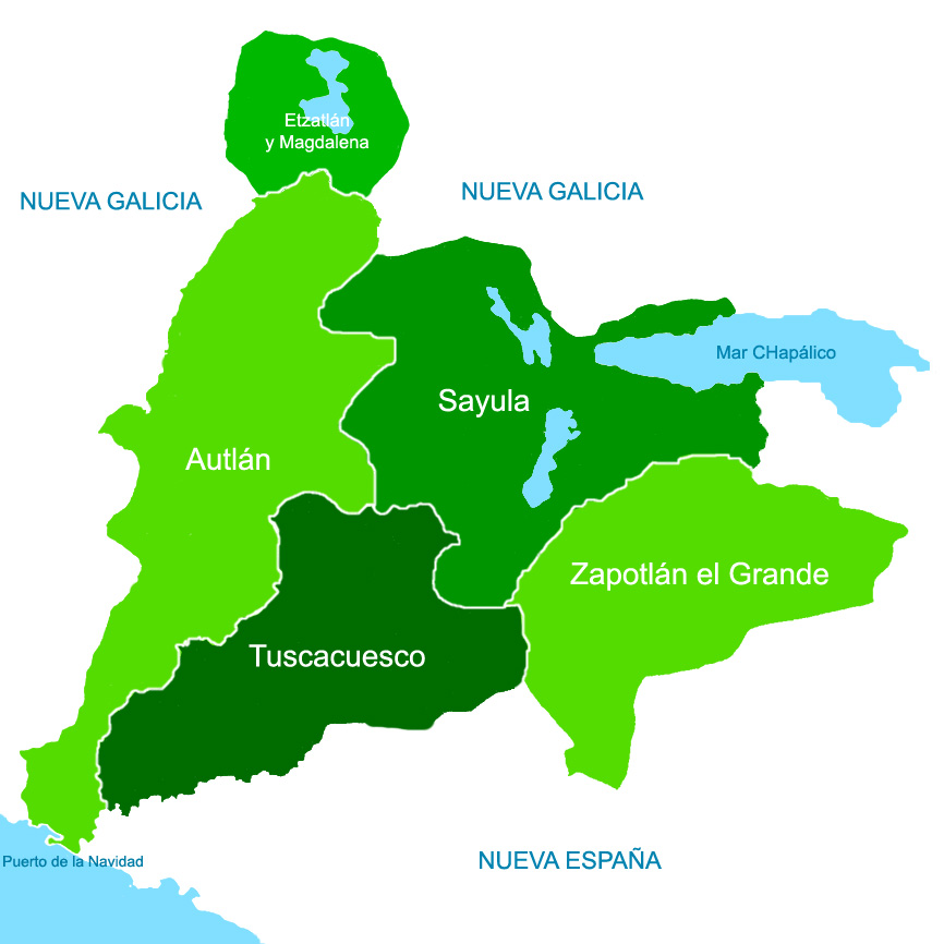 Ilustrative map of the "Provincias Subalternas" before 1786.